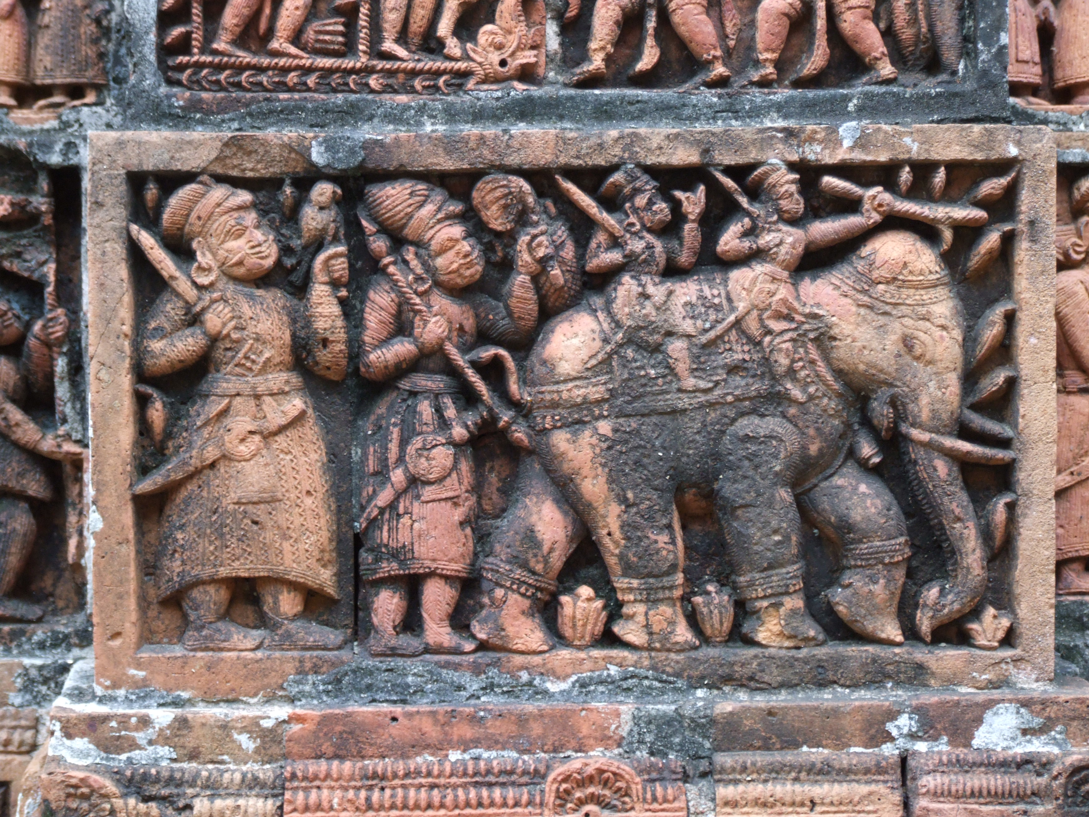 Kantanji's Temple in Dinajpur, Bangladesh. Photograph taken by: Saiful Aziz Shamsir.